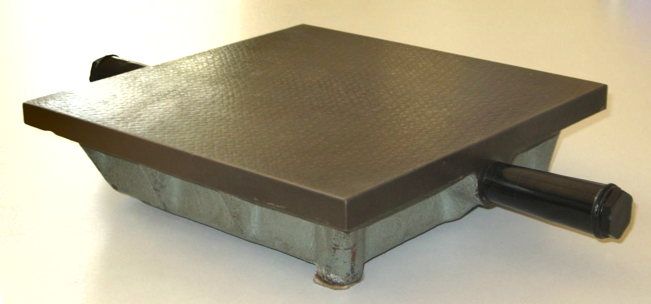 Iron surface plate 250x250 -top